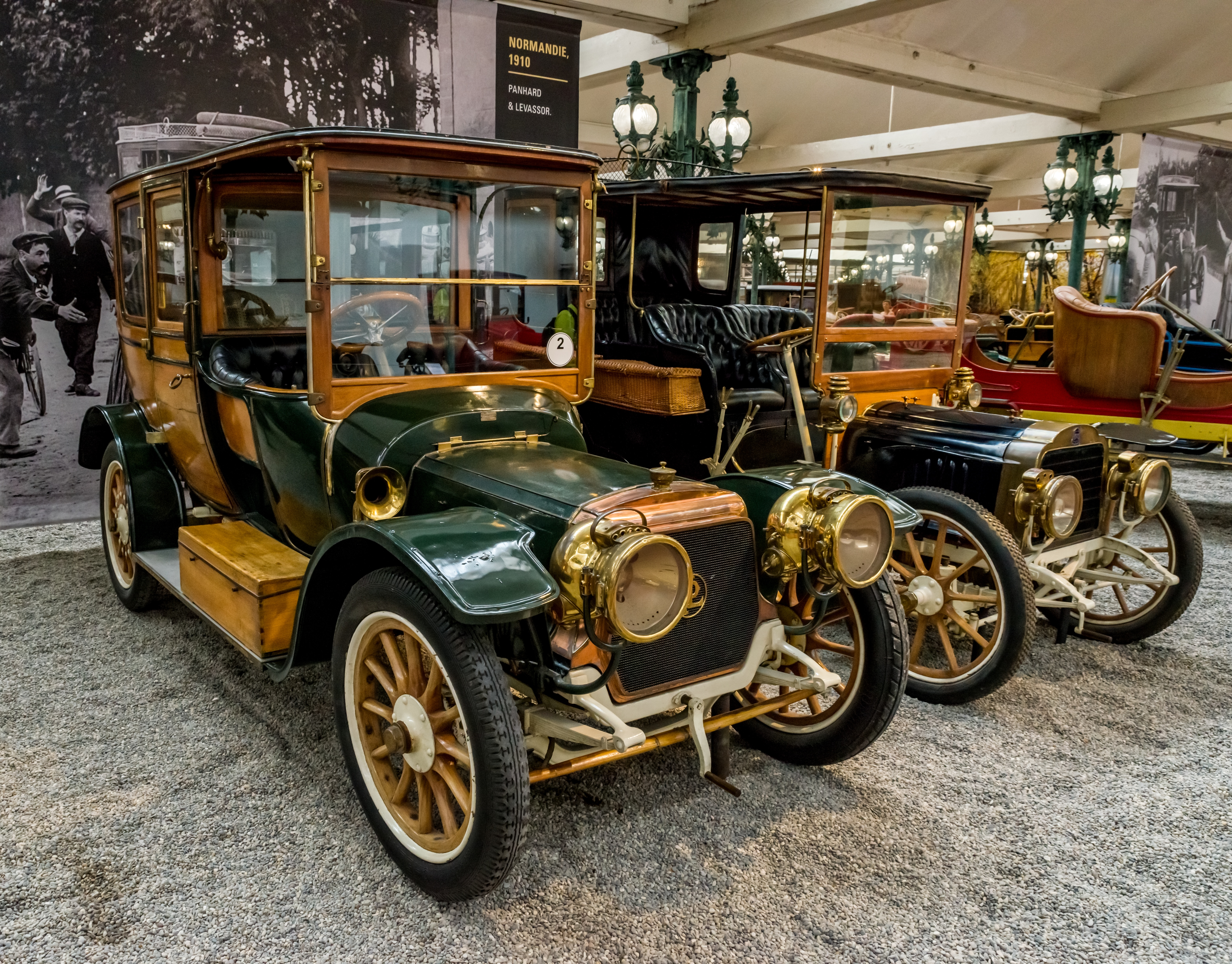 pictures from the Cité de l’Automobile – Musée National – Collection Schlump in Mulhouse, France ptictures from the 10. may 2018